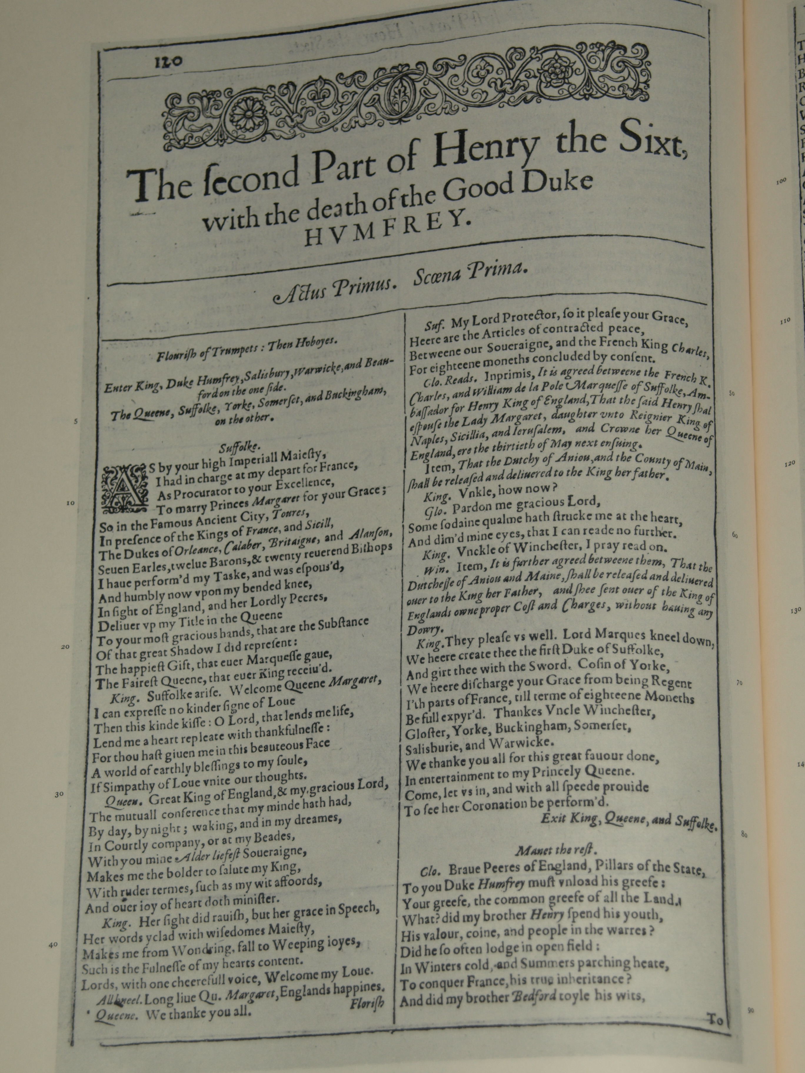 Photo of the first page of King Henry the Sixth, Part Two from a facsimile edition of the First Folio of Shakespeare's plays, published in 1623